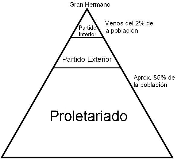 A social pyramid of the book Nineteen Eighty-Four, using the information in Goldstein's book, in Spanish.